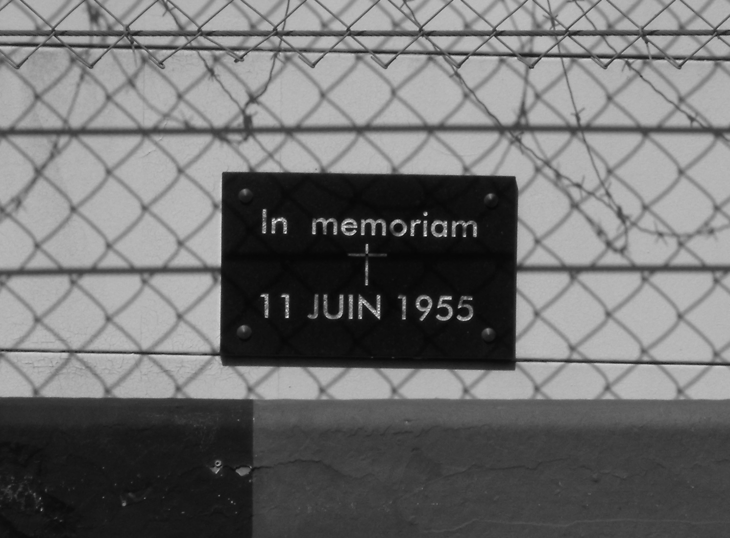 Phtotgraph of the memorial plaque at the site of the 1955 Le Mans disaster, taken by me at the 2009 Le Mans event from the pit lane on the other side of the pit straight